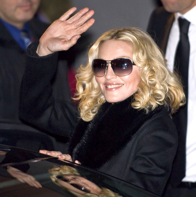 Madonna leaving the press conference for "Filth And Wisdom" at the Hyatt Hotel, Potsdamer Platz, Berlin